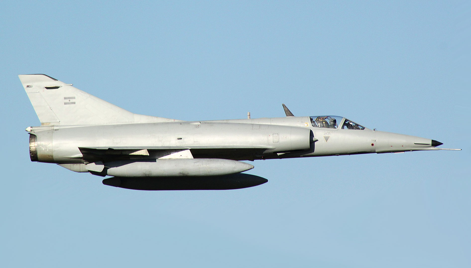 Argentine Air Force IAI Finger during Air Fest 2010 show at Moron Air Base, Buenos Aires Argentina